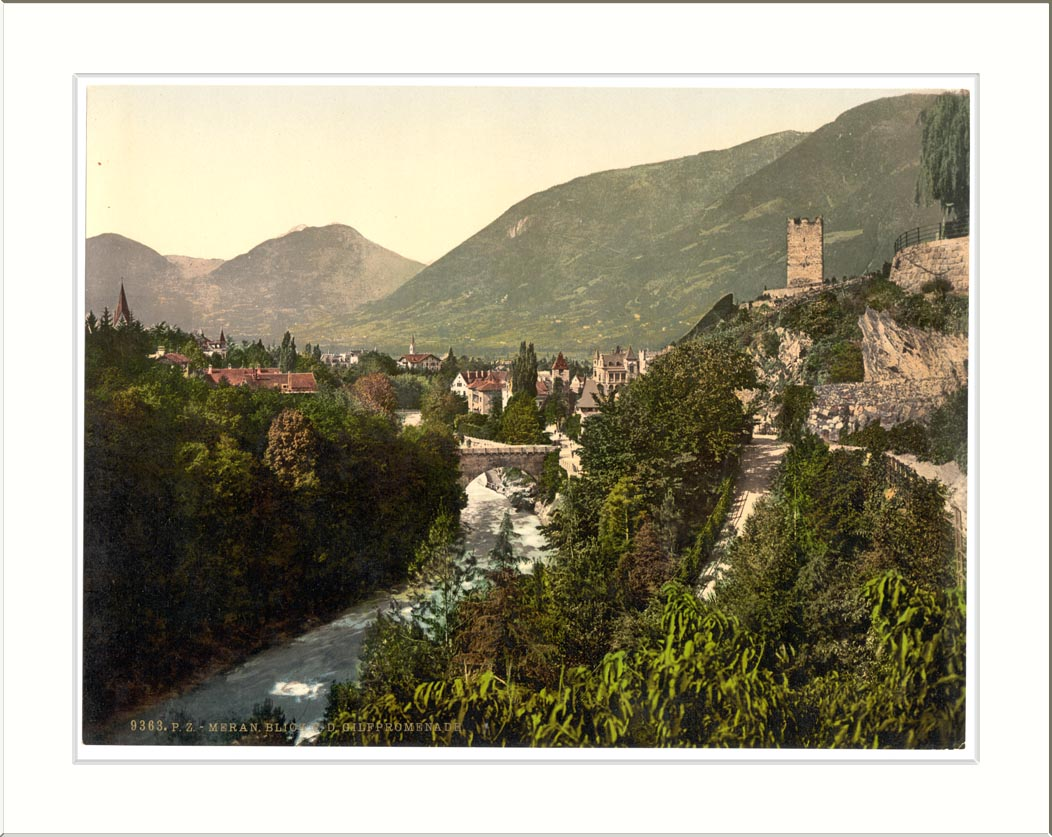 Meran from Gilfpromenade Tyrol Austro-Hungary